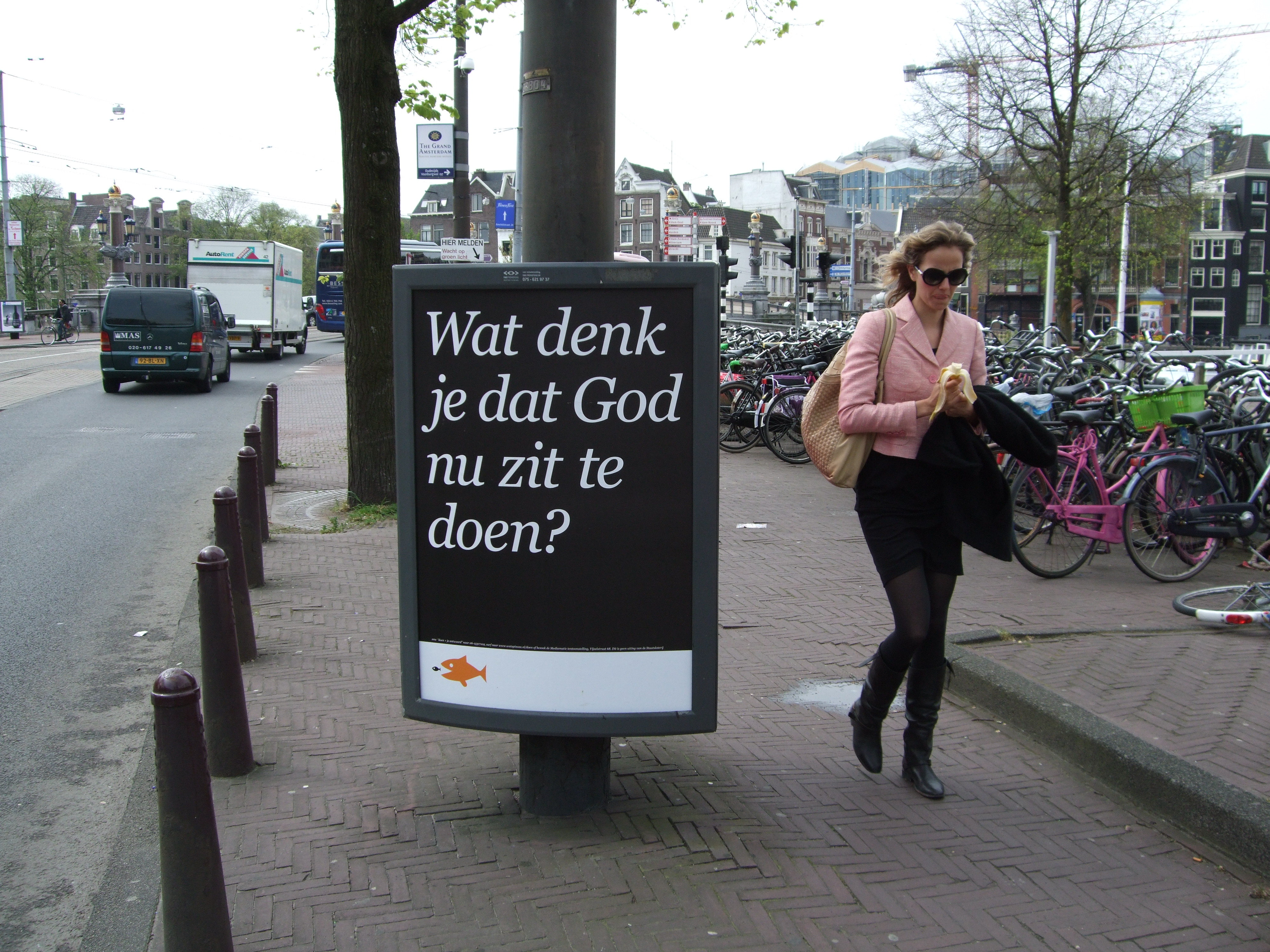 This is a poster of the Dutch campagne "WatSpinoza?" by Mediamatic. The picture was taken in Amsterdam near the Stopera.